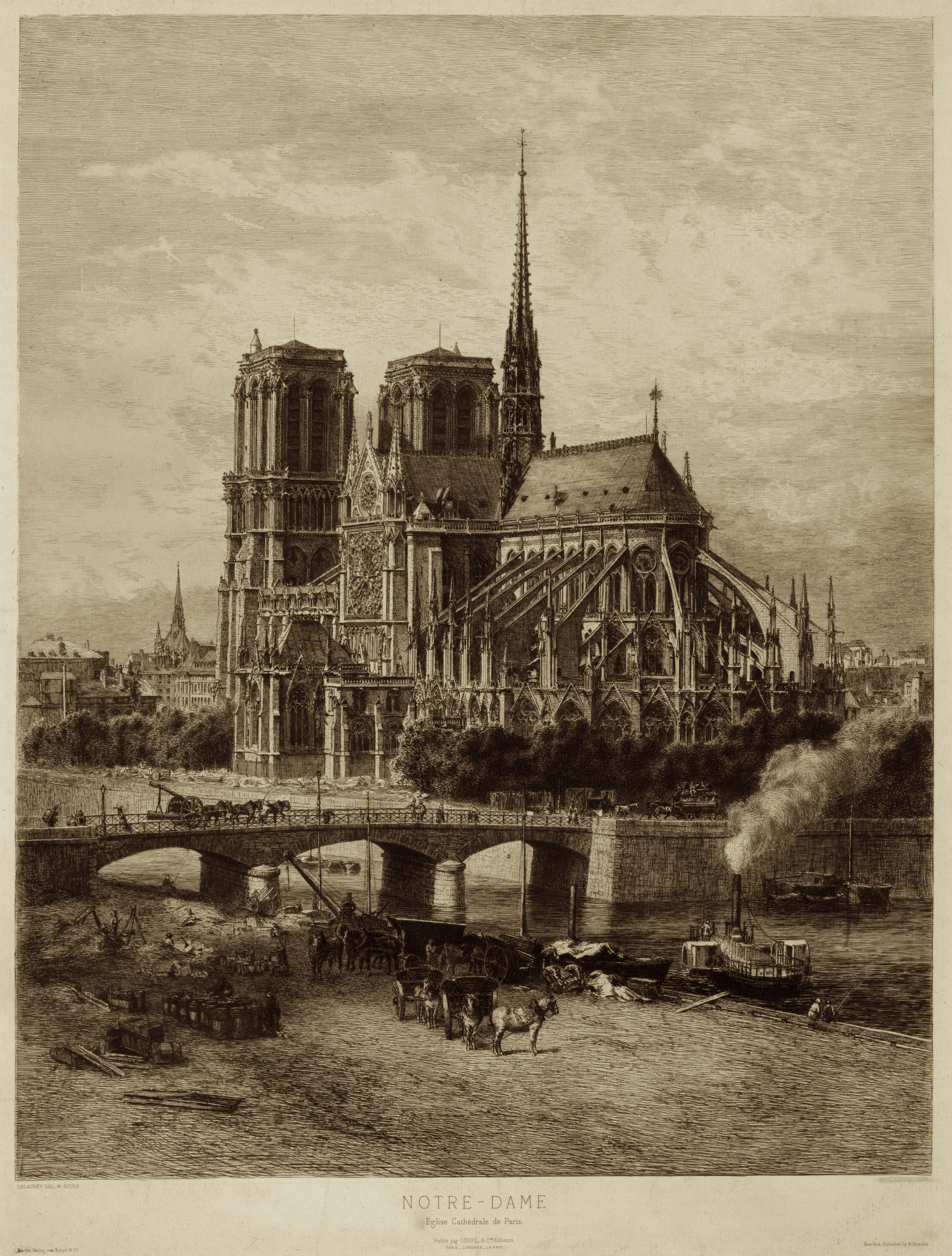 Notre-Dame - Eglise Cathédrale de Paris